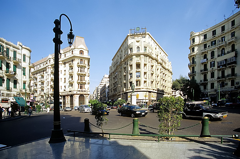 Midan Tala'at Harb, view to the east, Cairo, Egypt